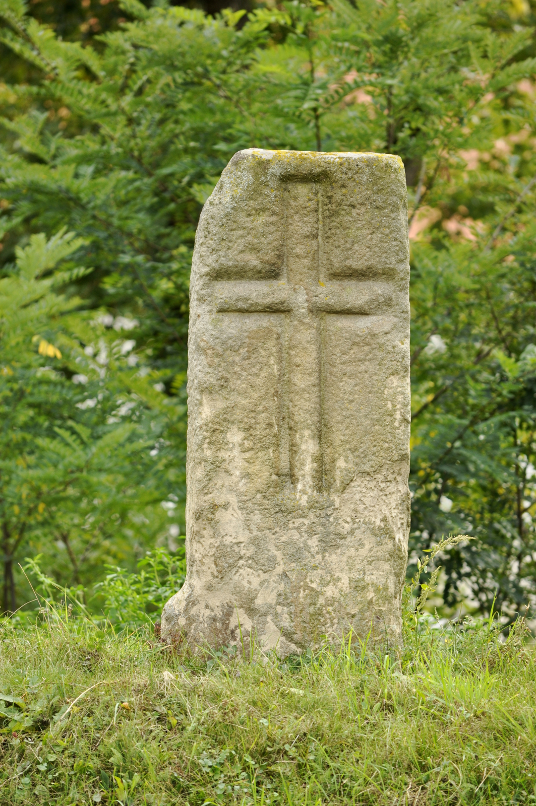 Biskoupky, Brno-Country District, Czechia.